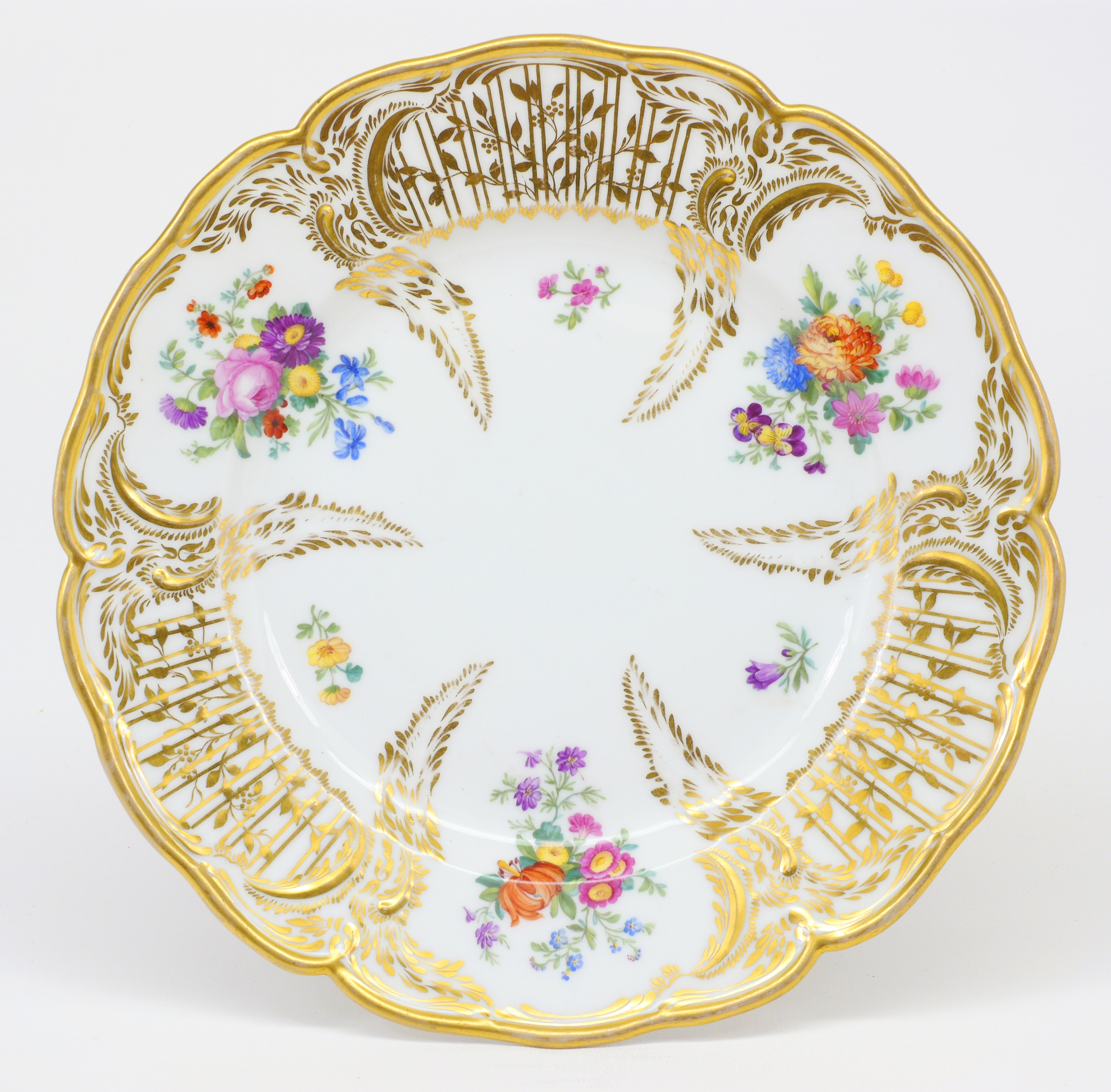 decoration with reliefKPM Berlin, 1837